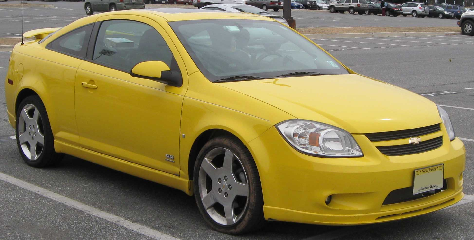 Chevrolet Cobalt photographed in College Park, Maryland, USA.